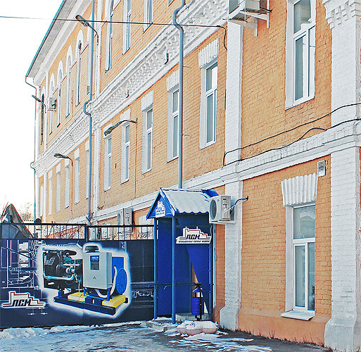 PSM office. Main entrance.